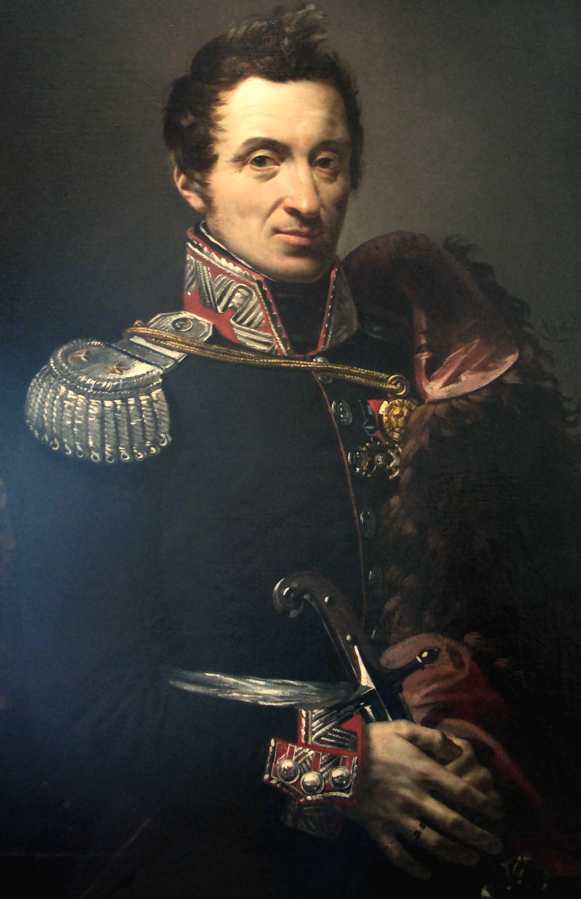 Konstanty Czartoryski in a general uniform of the Duchy of Warsaw